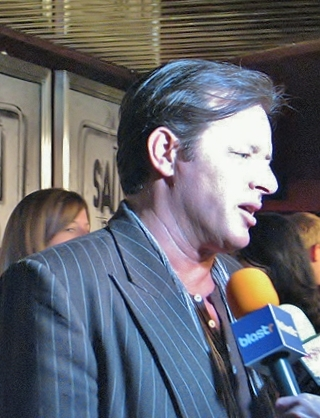 Costas Mandylor (Hoffman) attending the Saw 3D premiere at the Mann's Chinese 6 theater in Hollywood, CA.